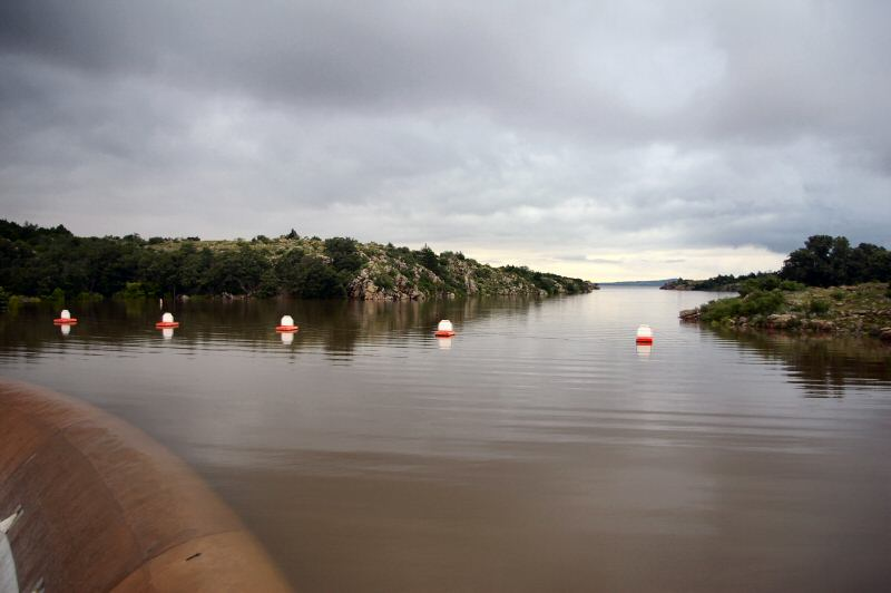 Picture of from Mountain Park Dam.